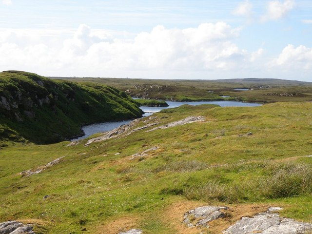 Loch Langabhat Looking north west towards a corner of Loch Langabhat